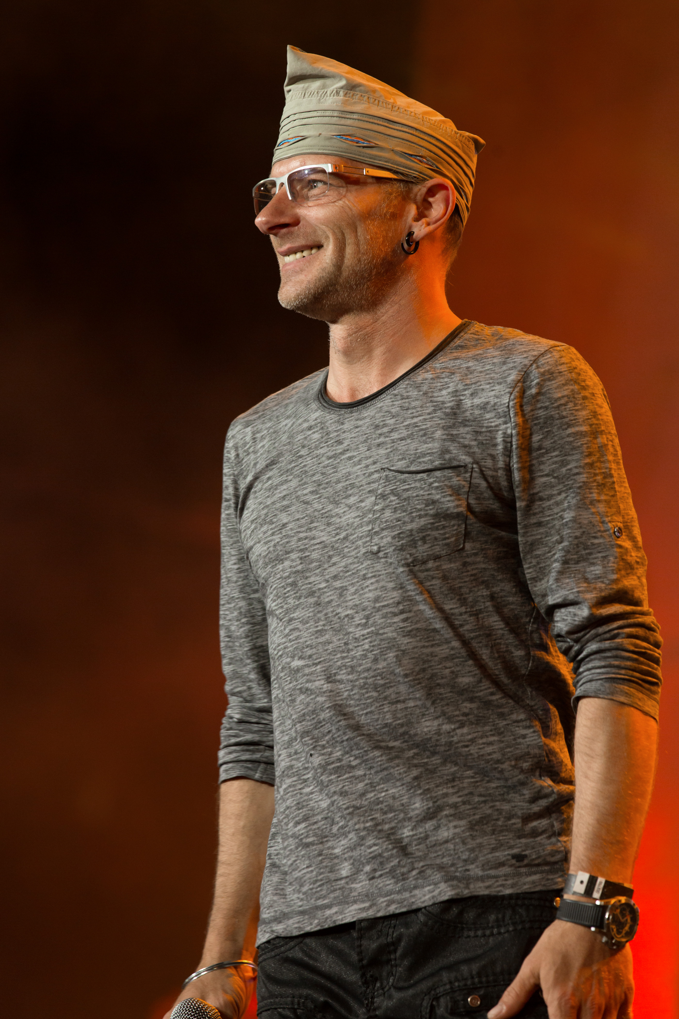 Thomas Forstner, participant of the Eurovision Song Contest 1989 and the Eurovision Song Contest 1991, with The Bad Powells, concert at Eurovision Village on Rathausplatz, a public event location of the Eurovision Song Contest 2015 in Vienna, Austria.